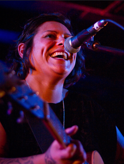 Anika Moa playing @ the SFBH with support from Nightchoir, 4th June 2010, Wellington, New Zealand